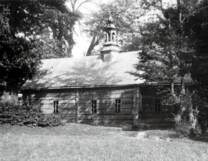 The Orthodox Church, which was built in Izbedki in 1650 or 1660, after the end of the campaign of forcible Catholicization of Ruthenians.